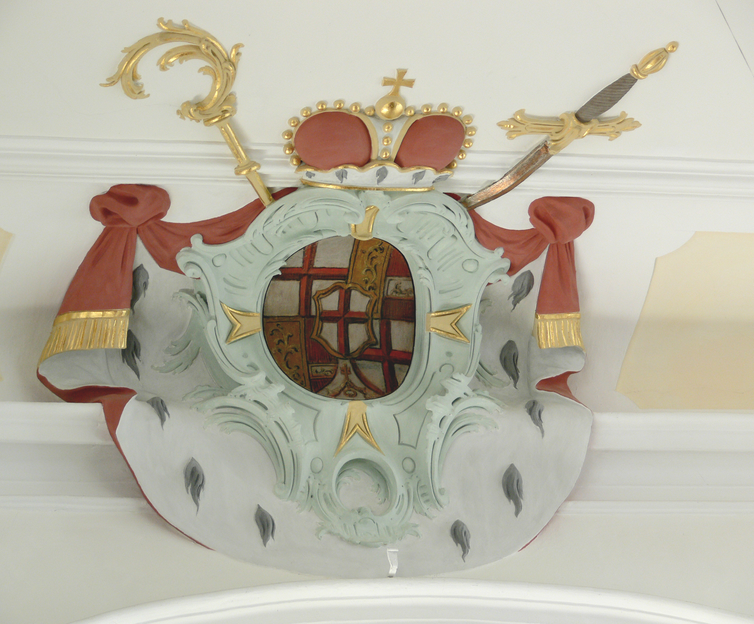 Coat of arms of the Prince Bishop of Constance, Franz Konrad von Rodt